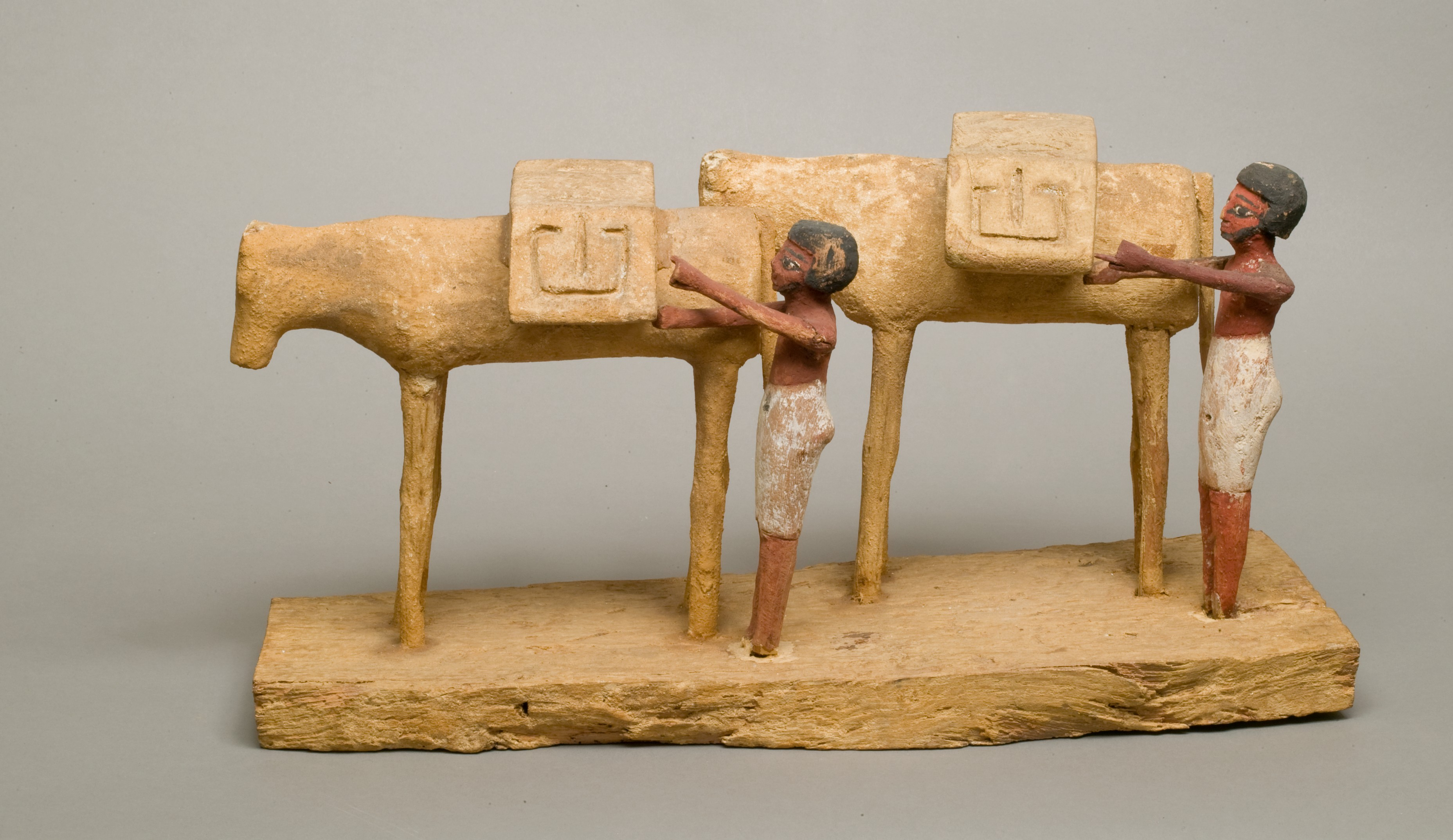 Model, donkeys with drivers, saddle bags